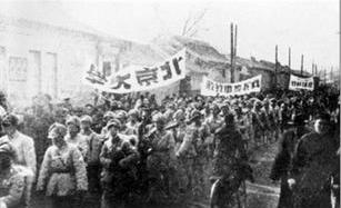 Peking University Students Welcoming PLA